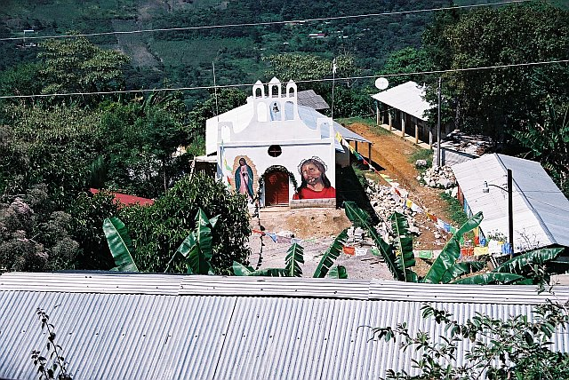 The chapel at Acteal, built by Las Abejas after the December 1997 massacre